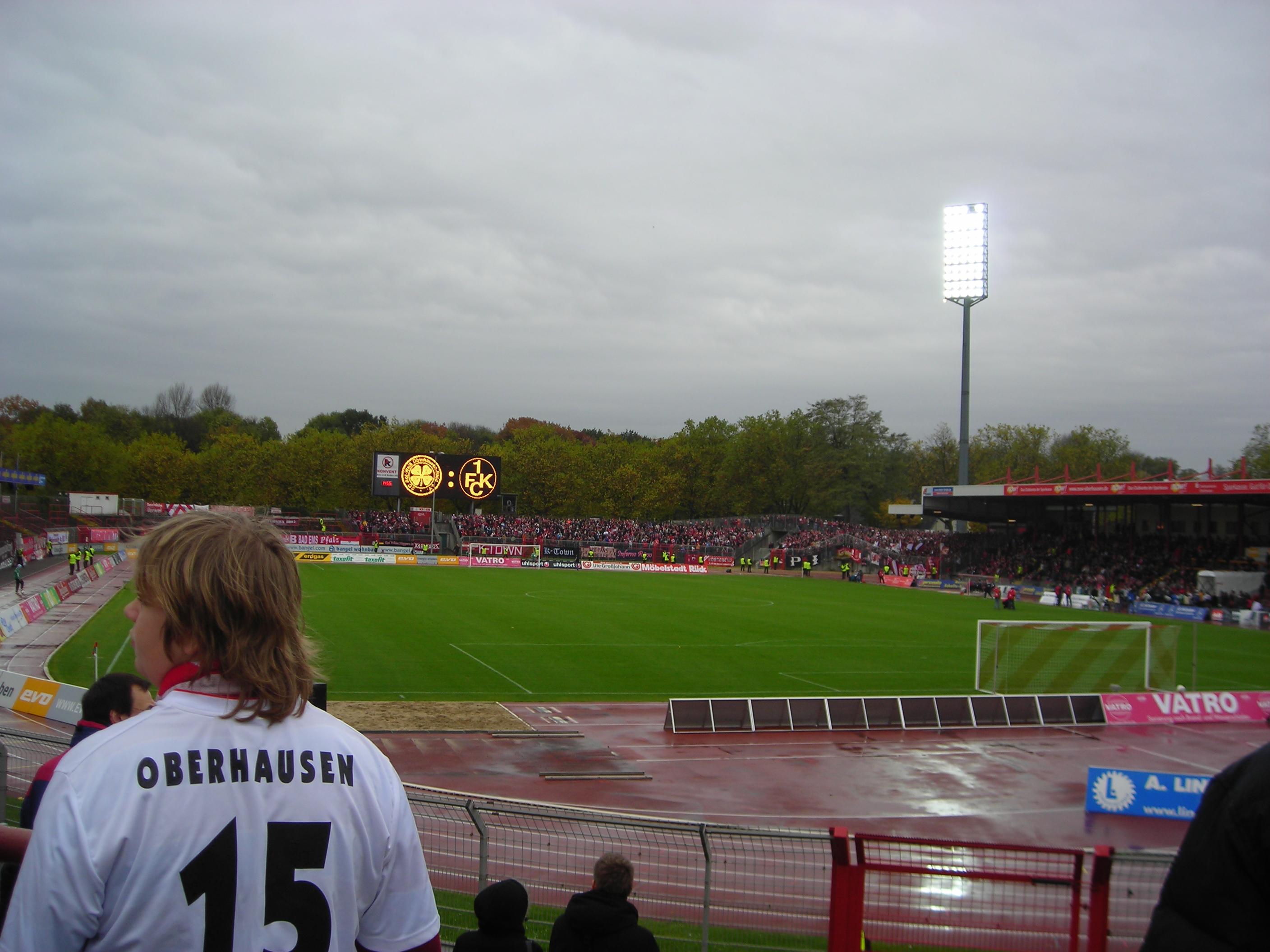 Niederrheinstadion in Oberhausen prior to the game between RWO and FCK from the German 2. Bundesliga.